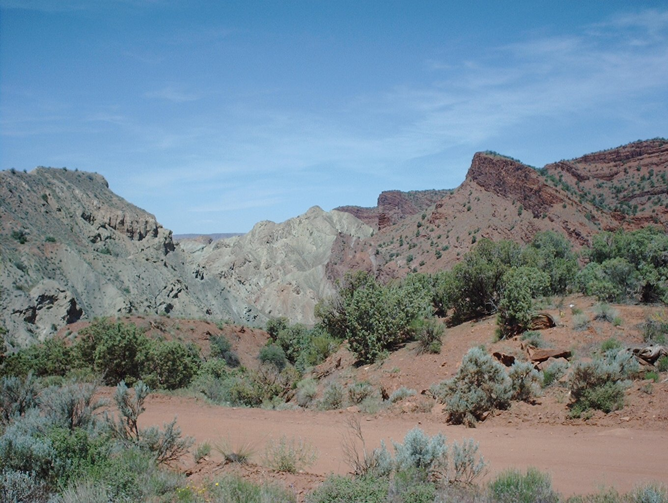 Emergent dome of Carboniferous salt of the Paradox Formation, at Fisher Towers, UT, U.S. Light gray formation in left-center is the salt emerging between eroding, anticlinal-uplifted overburden.